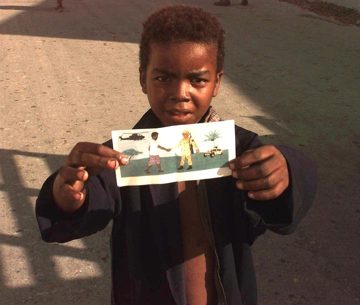 A young Somali boy holding one of the American PSYOPS leaflets up to the camera. The leaflet is a hand drawing a Somali man shaking the hand of a U.S. Forces member. In the background of the picture are drawings of an AH-1 "Cobra" helicopter and High-Mobility Multipurpose Wheeled Vehicle (HMMWV). The drawing conveys to the Somali people that the U.S. is trying to help end their suffering and is here as their friends. The leaflets are being used in direct support of Operation Restore Hope.